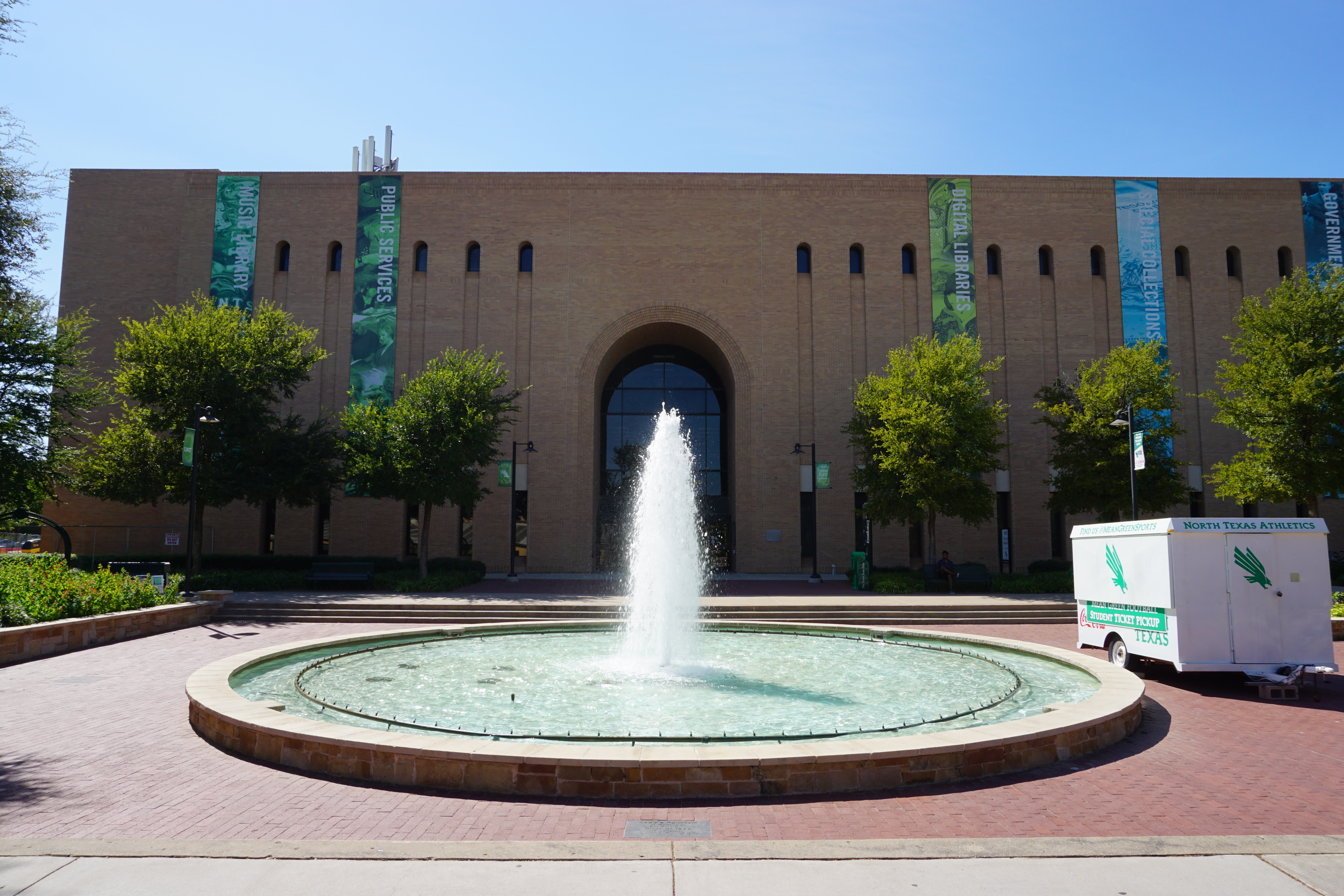 Jody's Fountain and the Willis Library on the campus of the University of North Texas in Denton, Texas (United States).